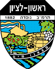 Coat of Arms of the City of Rishon LeZion, Israel